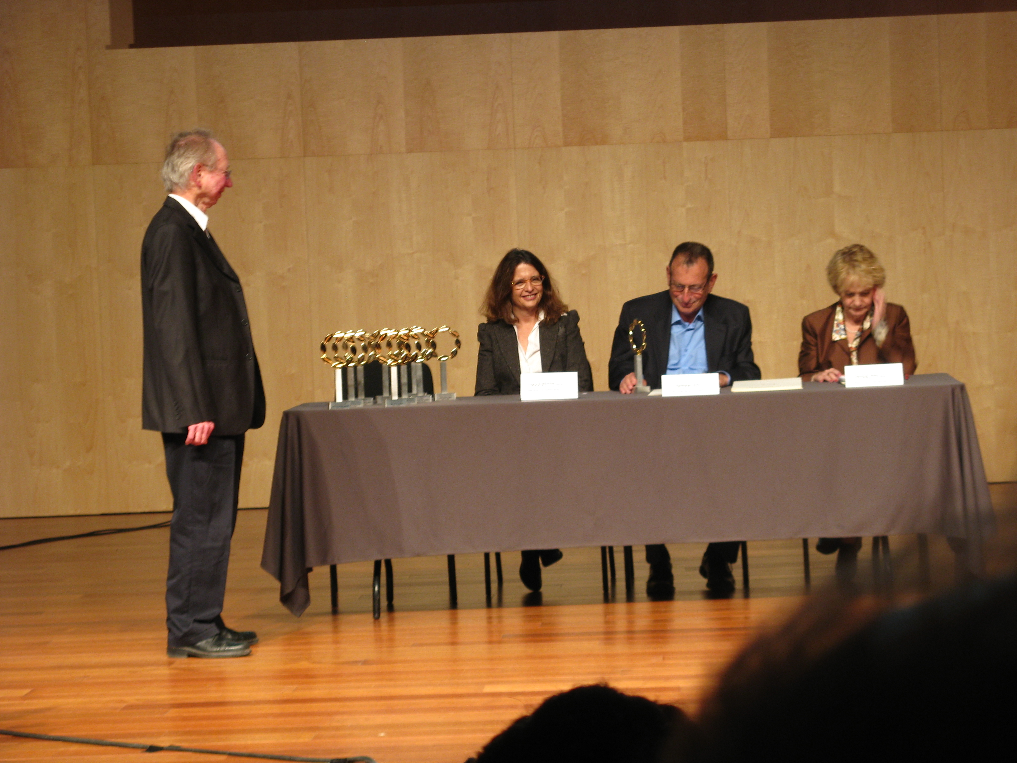 Professor Yehoash Hirshberg receiving the 2011 Engel prize, by the city of Tel Aviv-Yaffo, Israel, November 22, 2011.